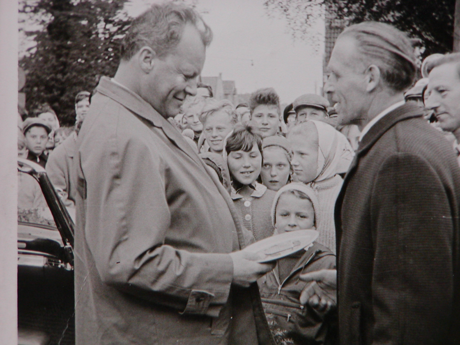 Gerhard Bold and Willy Brandt